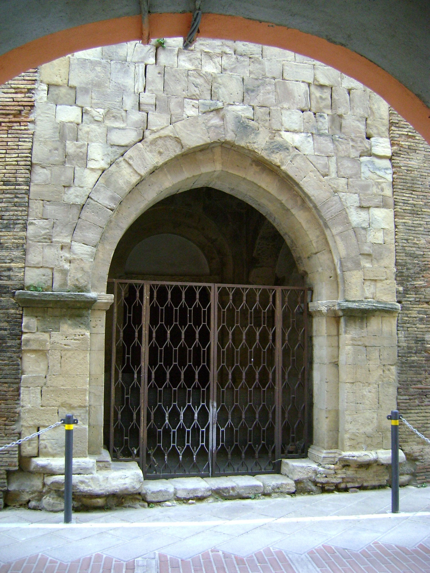 The old Romanesque portal of the church of Santa Maria Maggiore di Lanciano, Chieti Province, Abruzzo